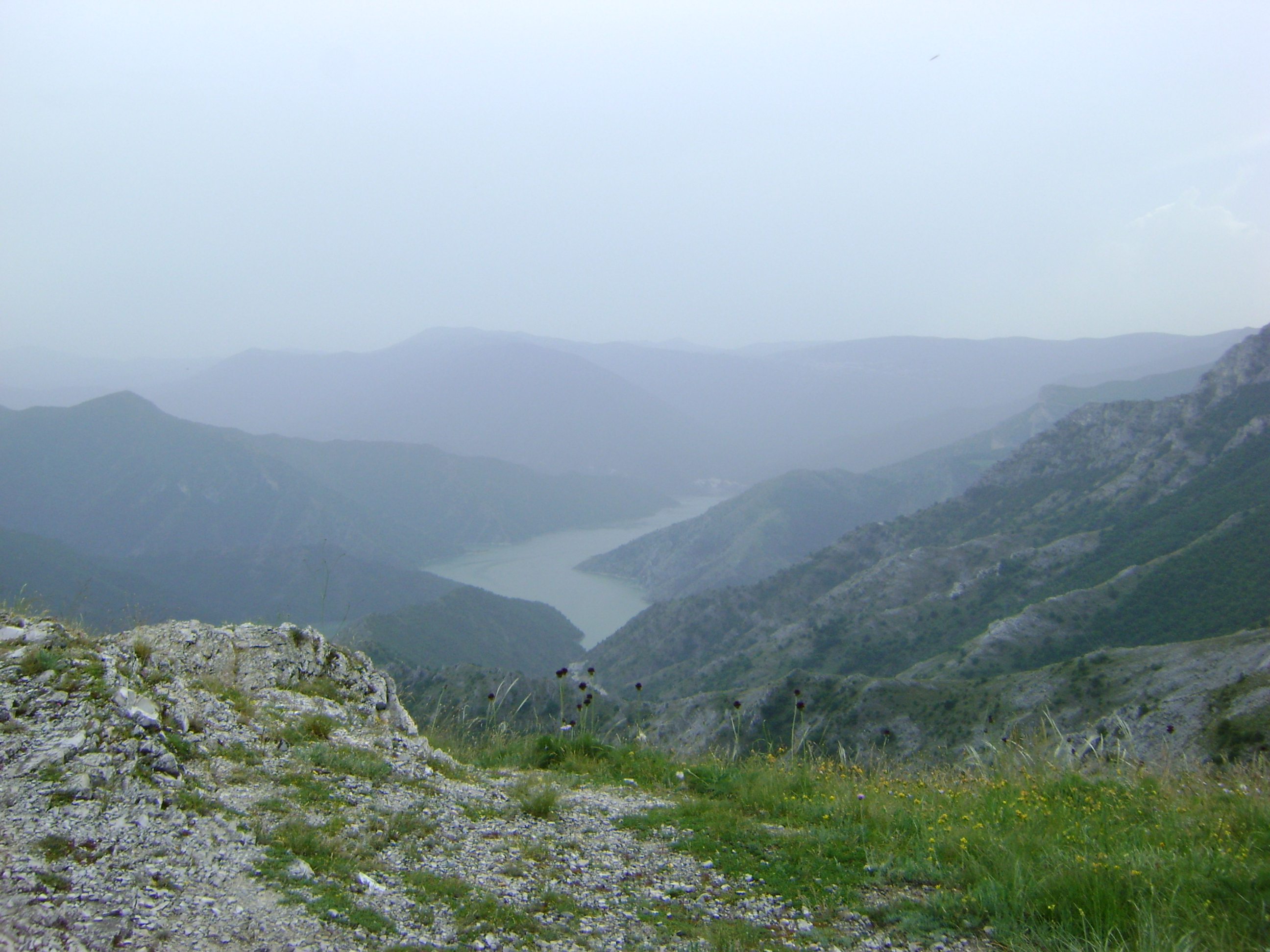 National reserve Јasen